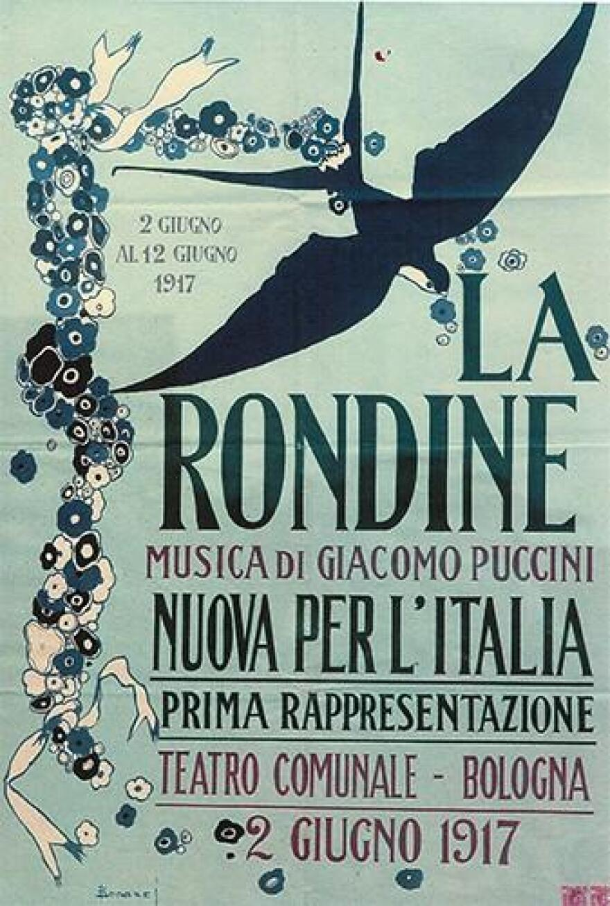 Copy of the 1917 poster for the Italian premiere of Puccini's La rondine.